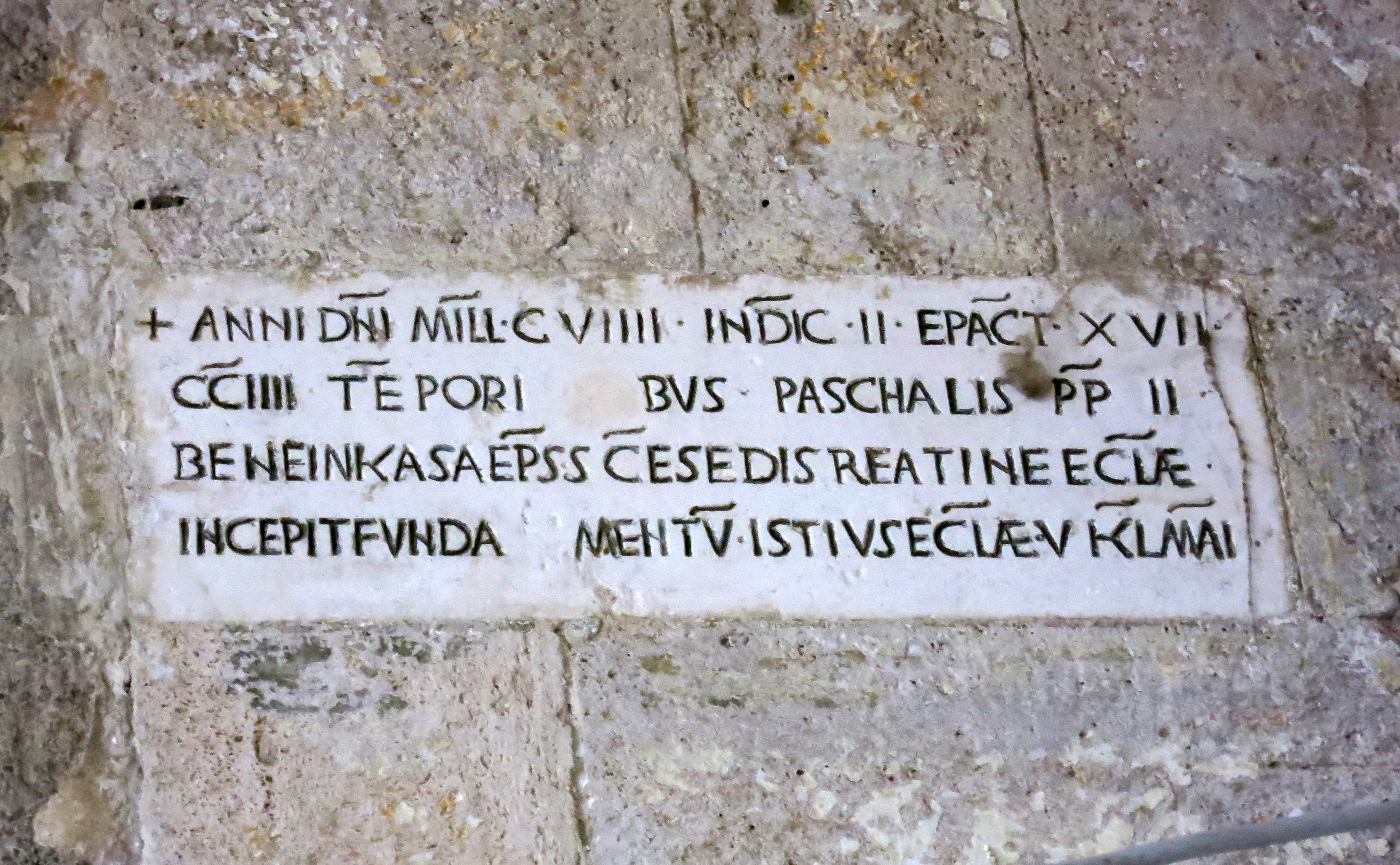 Inscription recalling the foundation of the Cathedral of Rieti (Lazio, Italy), on 27 April 1109, located in the Papal Palace.